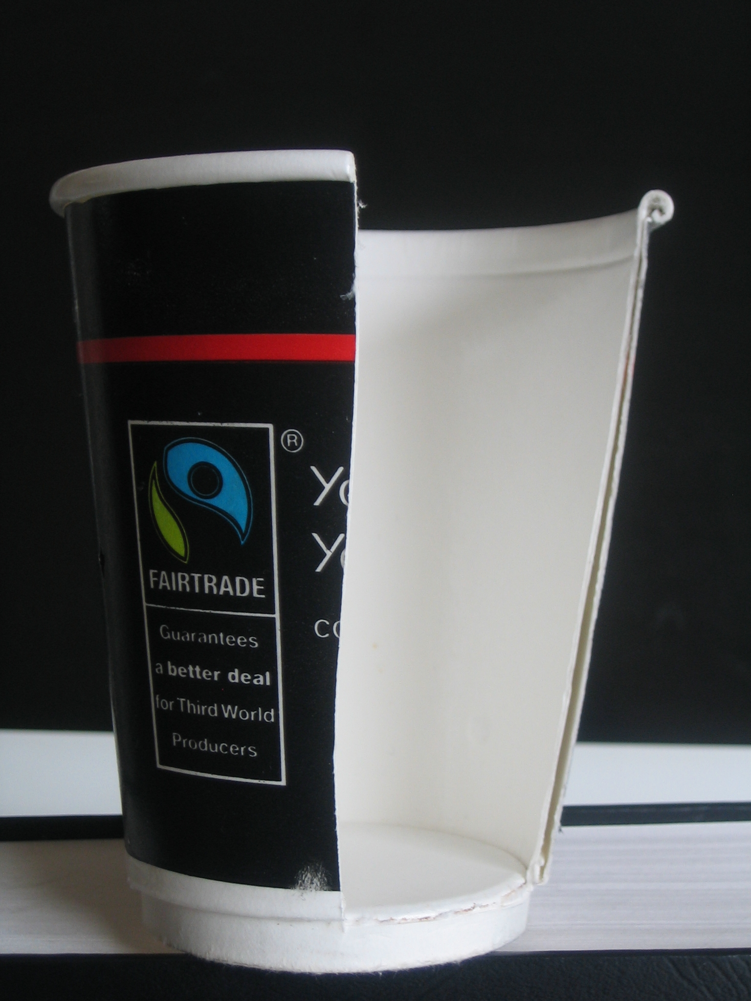 Photograph of an insulated paper cup, with cutaway to show its construction. Cup was purchased with coffee on a Virgin train in England on 23 September 2008